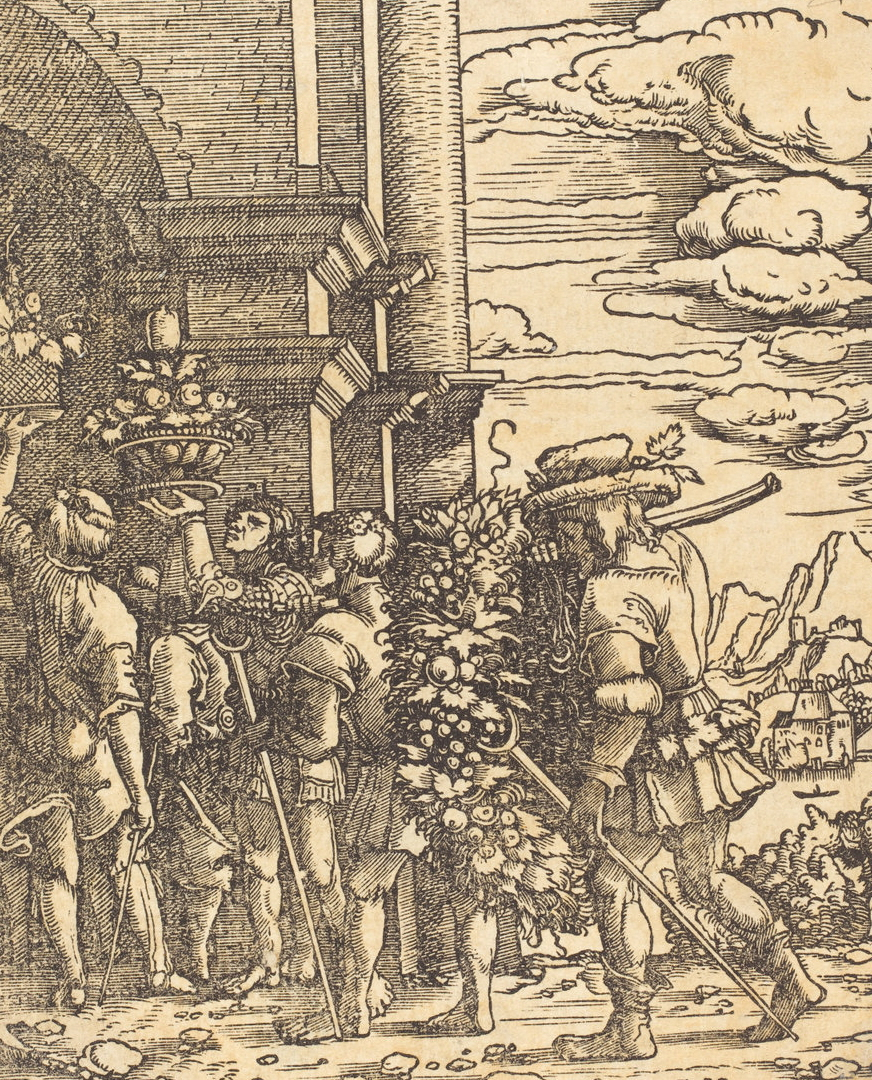 Joshua and Caleb carrying fruit of the Promised Land, as in Numbers 13:23; woodcut circa 1480 by Albrecht Altdorfer at the National Gallery of Art, Washington, D.C.